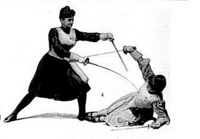 Women fencers - threat parried with the dagger and straight threat with sword